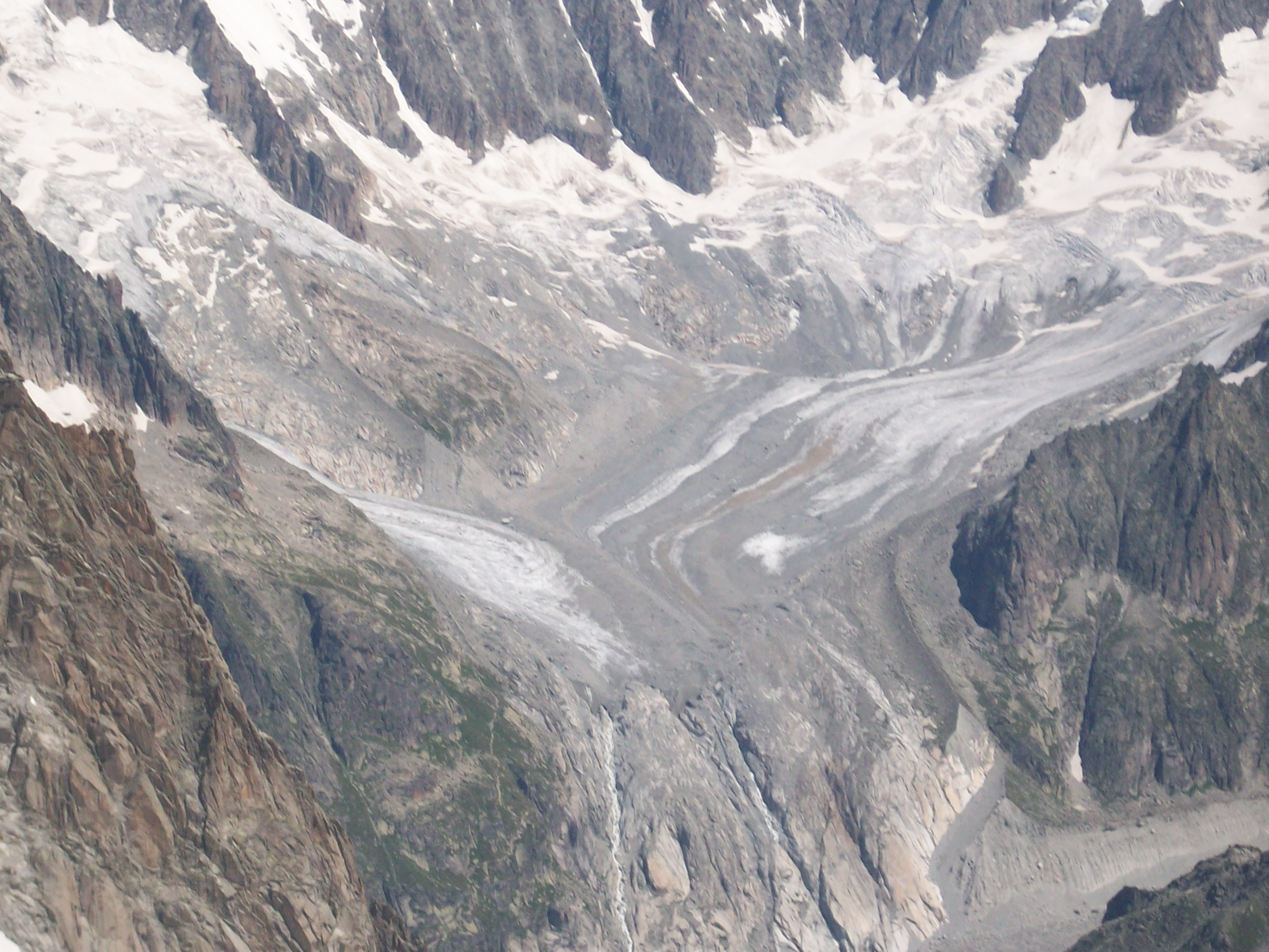 Talèfre glacier (France) from Helbroner cabin